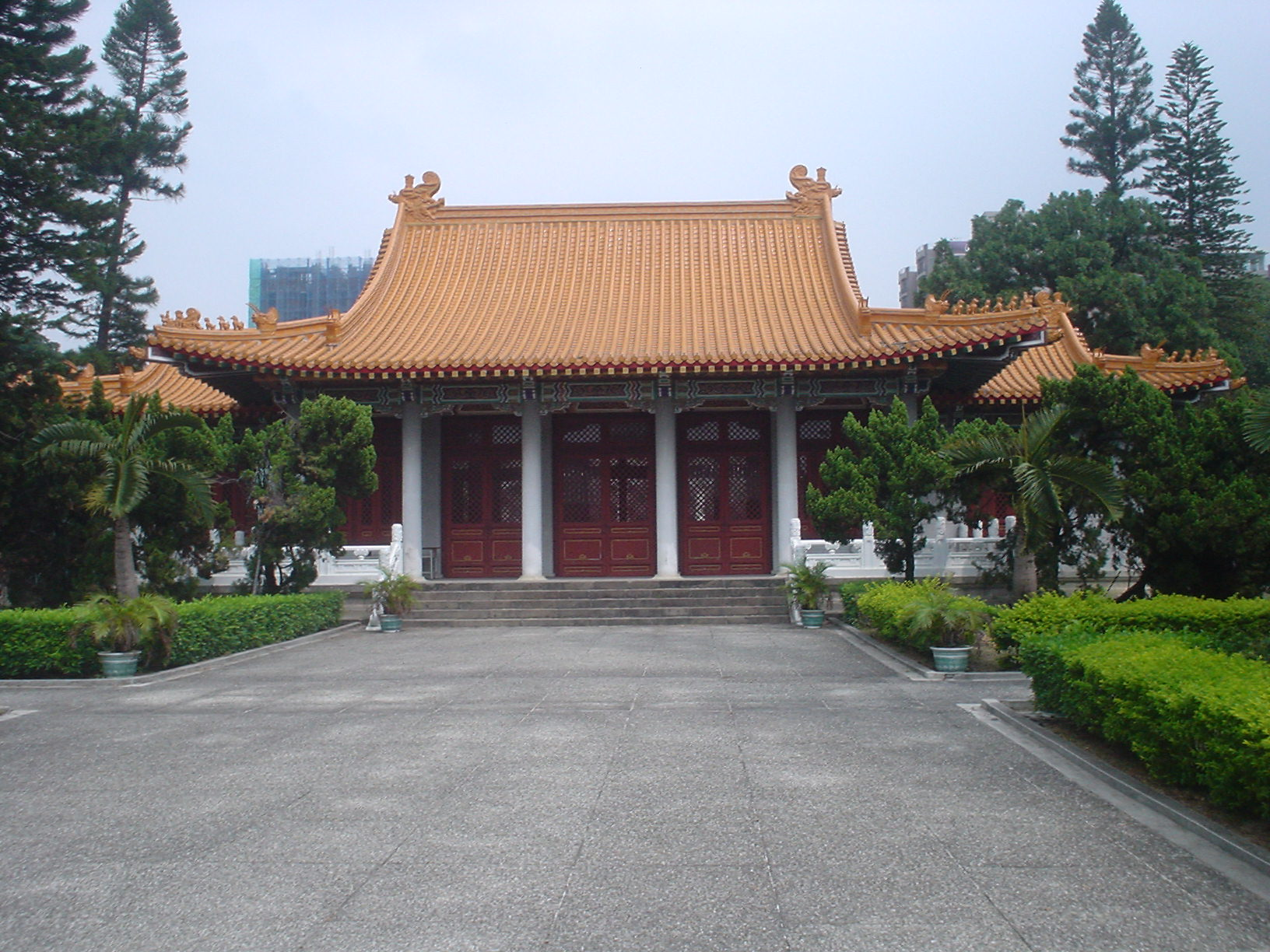 Shrine to martyr's of the Republic of China in Taichung, Taiwan